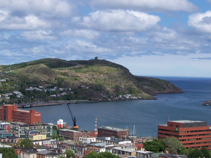 Signal Hill, St. John's